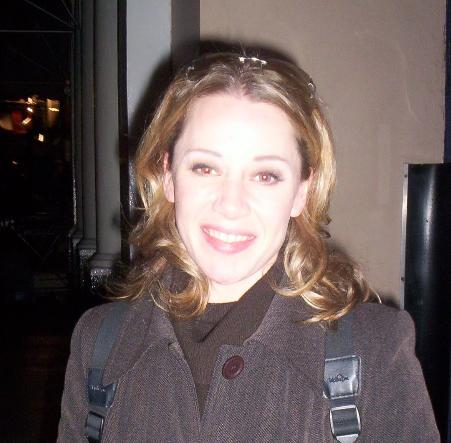 Photograph of Linzi Hateley, taken outside Prince Edward Theatre (Mary Poppins The Musical), 2005